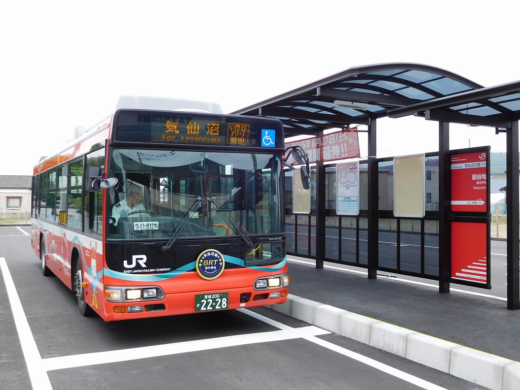 Maeyachi station BRT(Kesennuma line) pratform